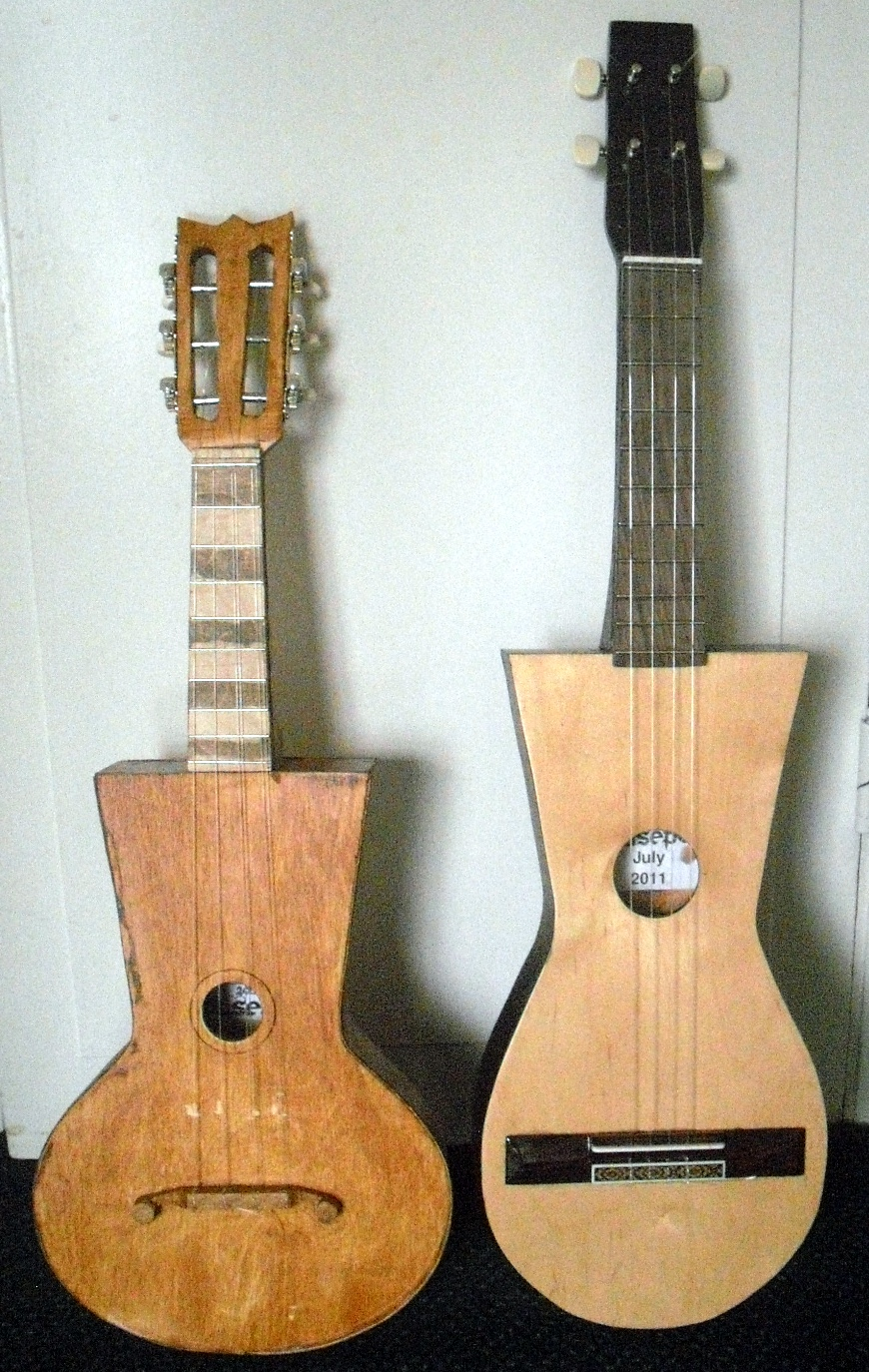 Cuatro Antiguos.